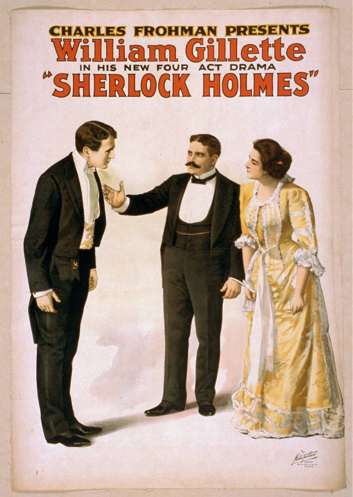 1900 poster for Sherlock Holmes by William Gillette.